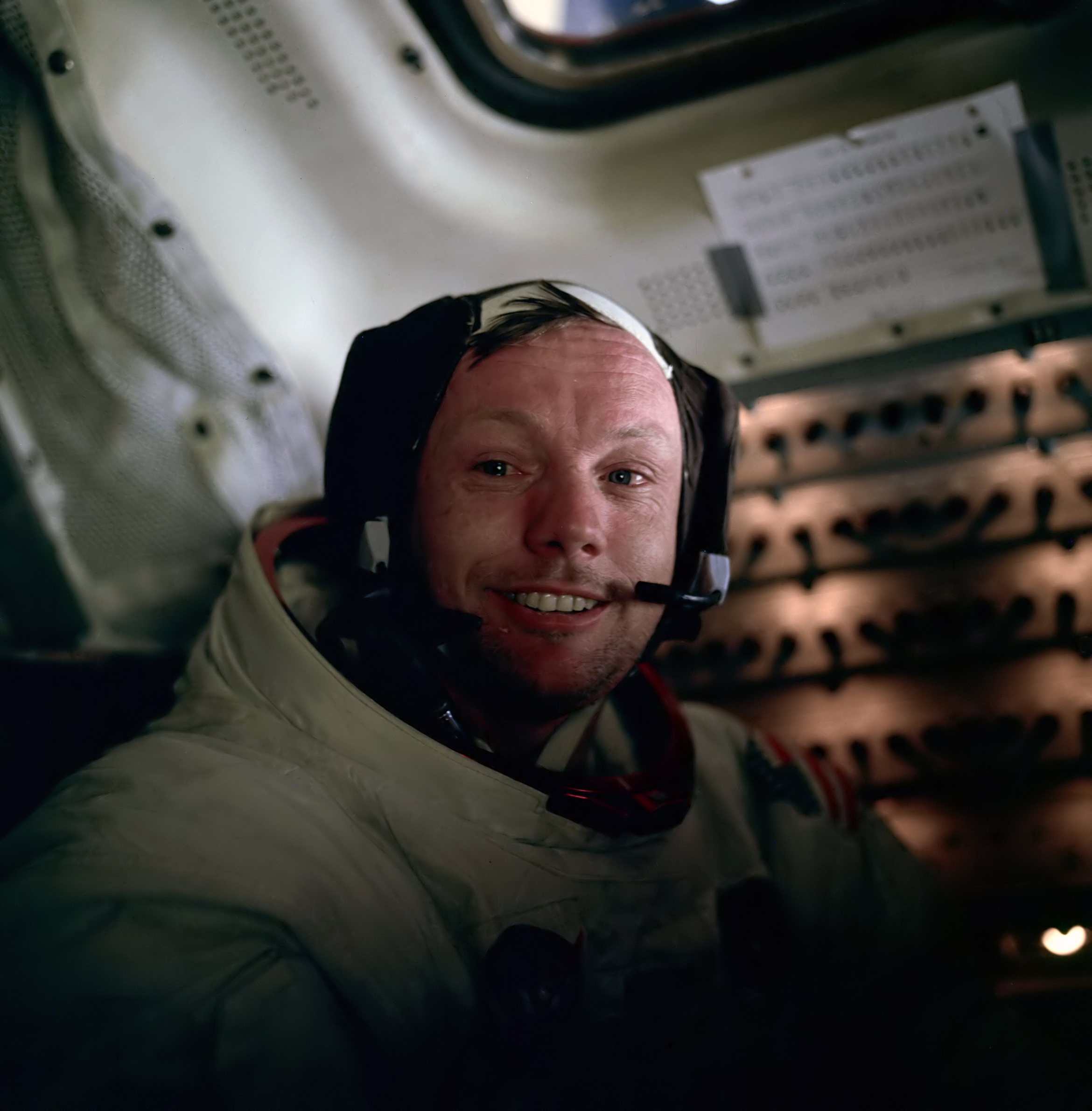 Neil Armstrong photographed by Buzz Aldrin after the completion of the Lunar EVA on the Apollo 11 flight (brighter and smaller version)